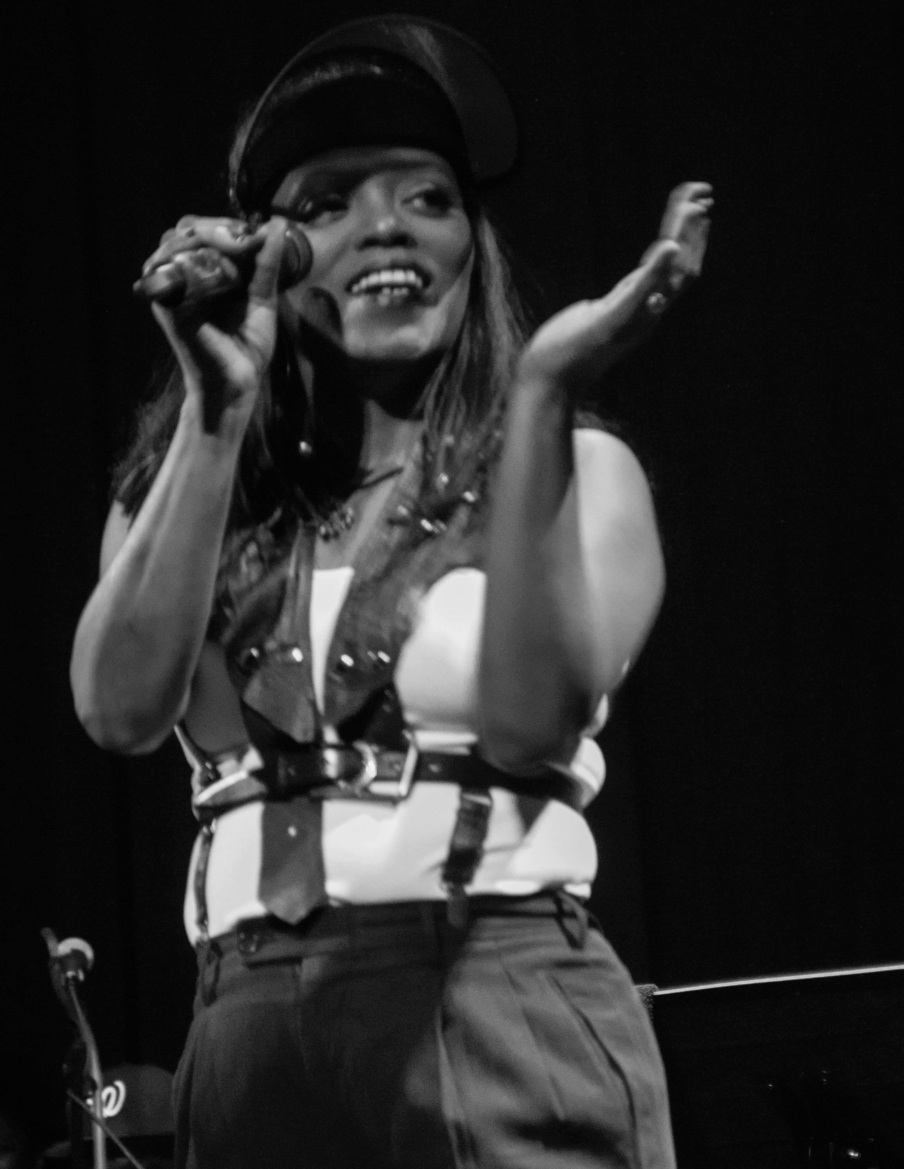 N'Dea Davenport performing at DC Loves Dilla - 9th Annual Tribute and Fundraiser in 2014